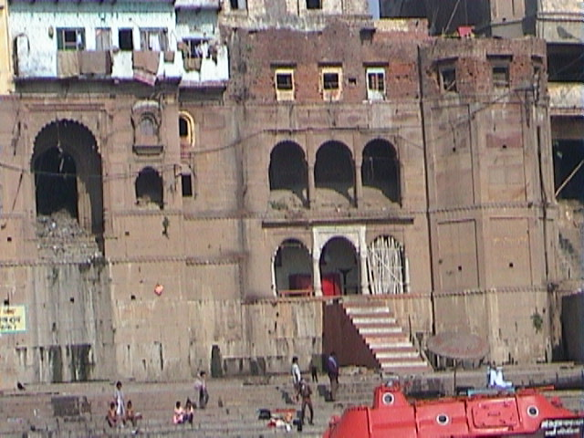 See Varanasi Development Cooperation Handbook/Stories/Responsible Development - Varanasi The Varanasi Heritage Dossier Kautilya Society Play media Vrinda Dar - How we got involved in heritage protection of Varanasi